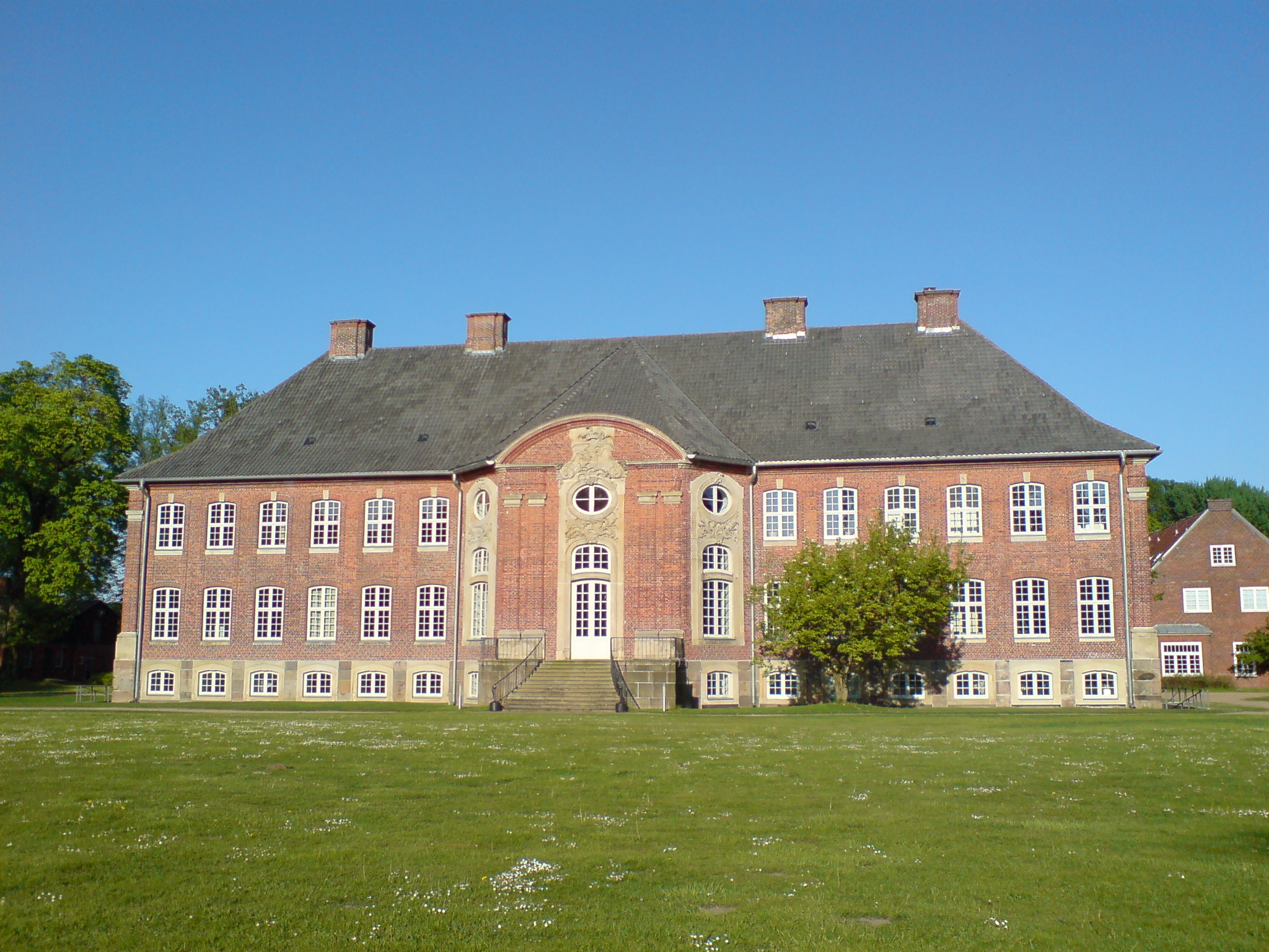 Borstel Manor, Schleswig-Holstein, Germany